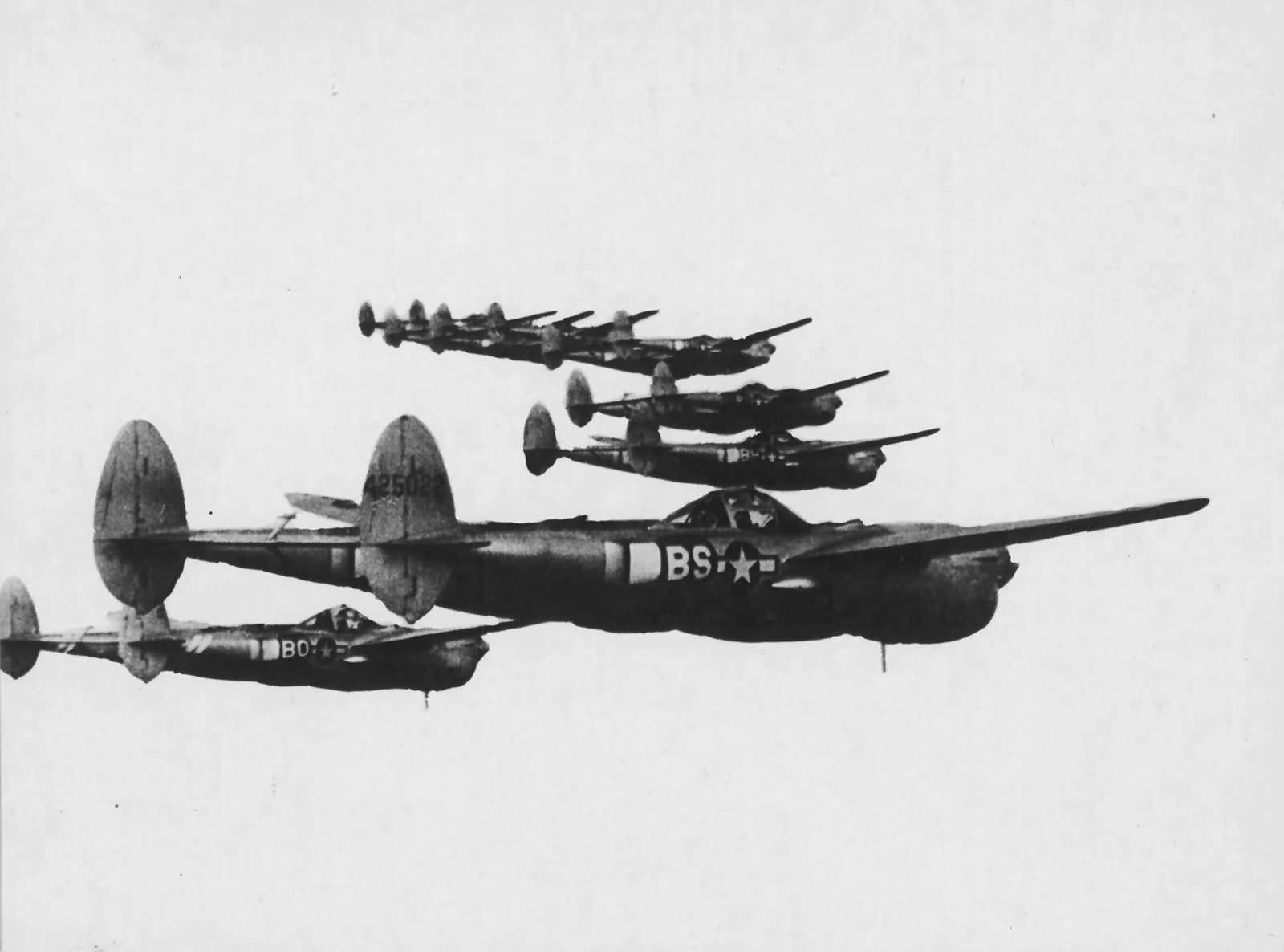 A formation of P-38L Lightnings from the 96th Fighter Squadron, 82nd Fighter Group, 15th Air Force over Italy.